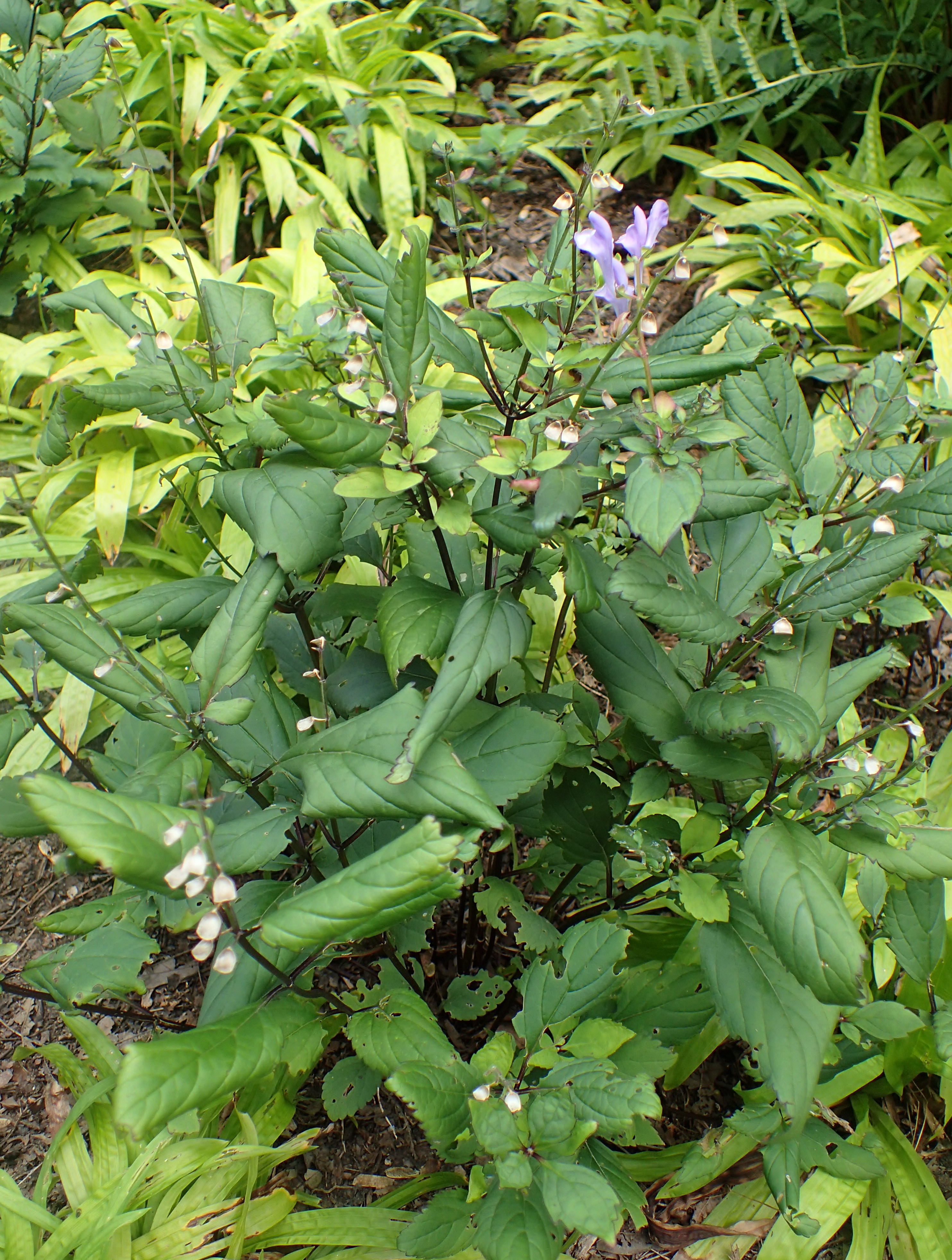 Scutellaria serrata at the New York Botanical Garden